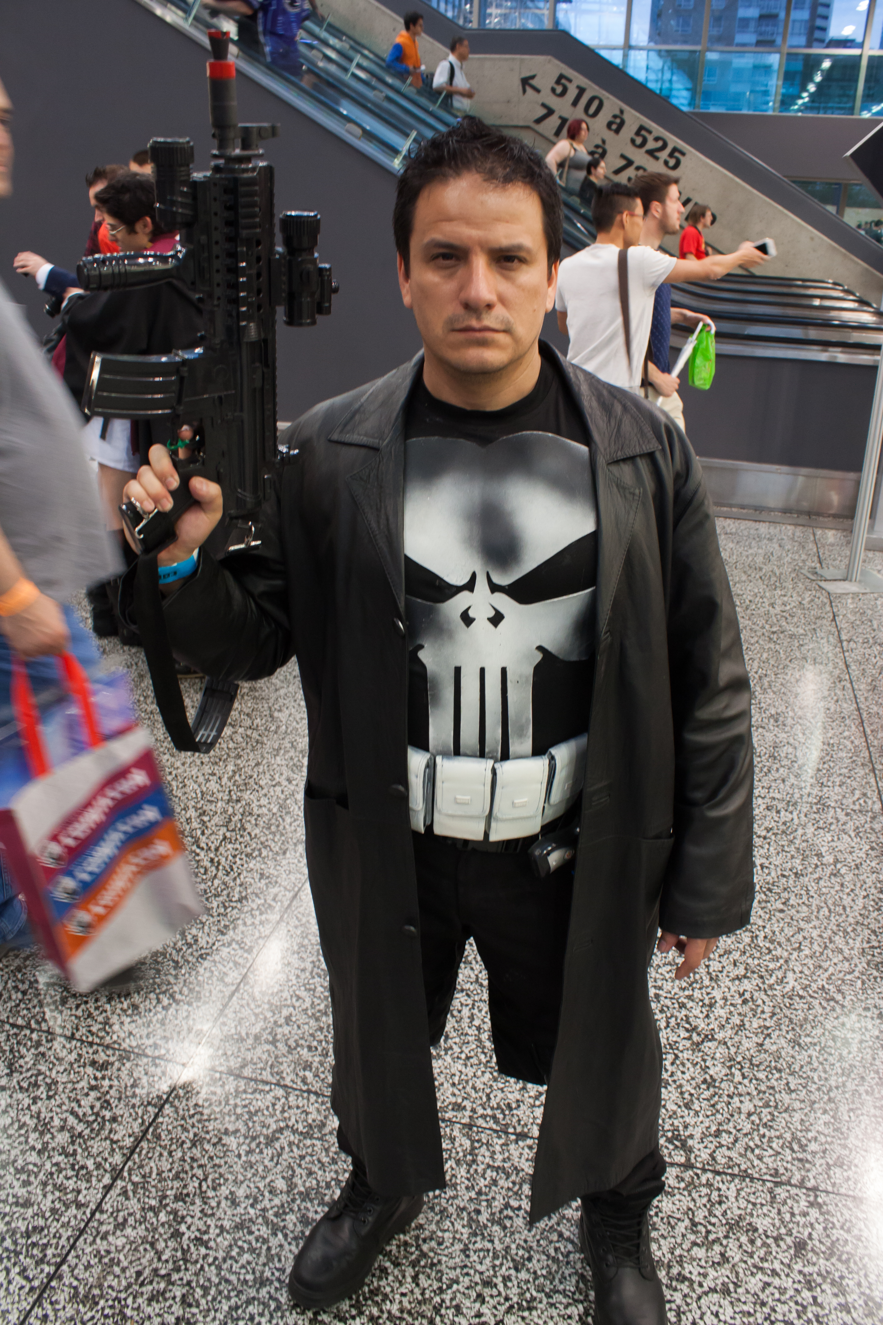 Cosplay on Friday, day one, of the Montreal Comiccon 2016.